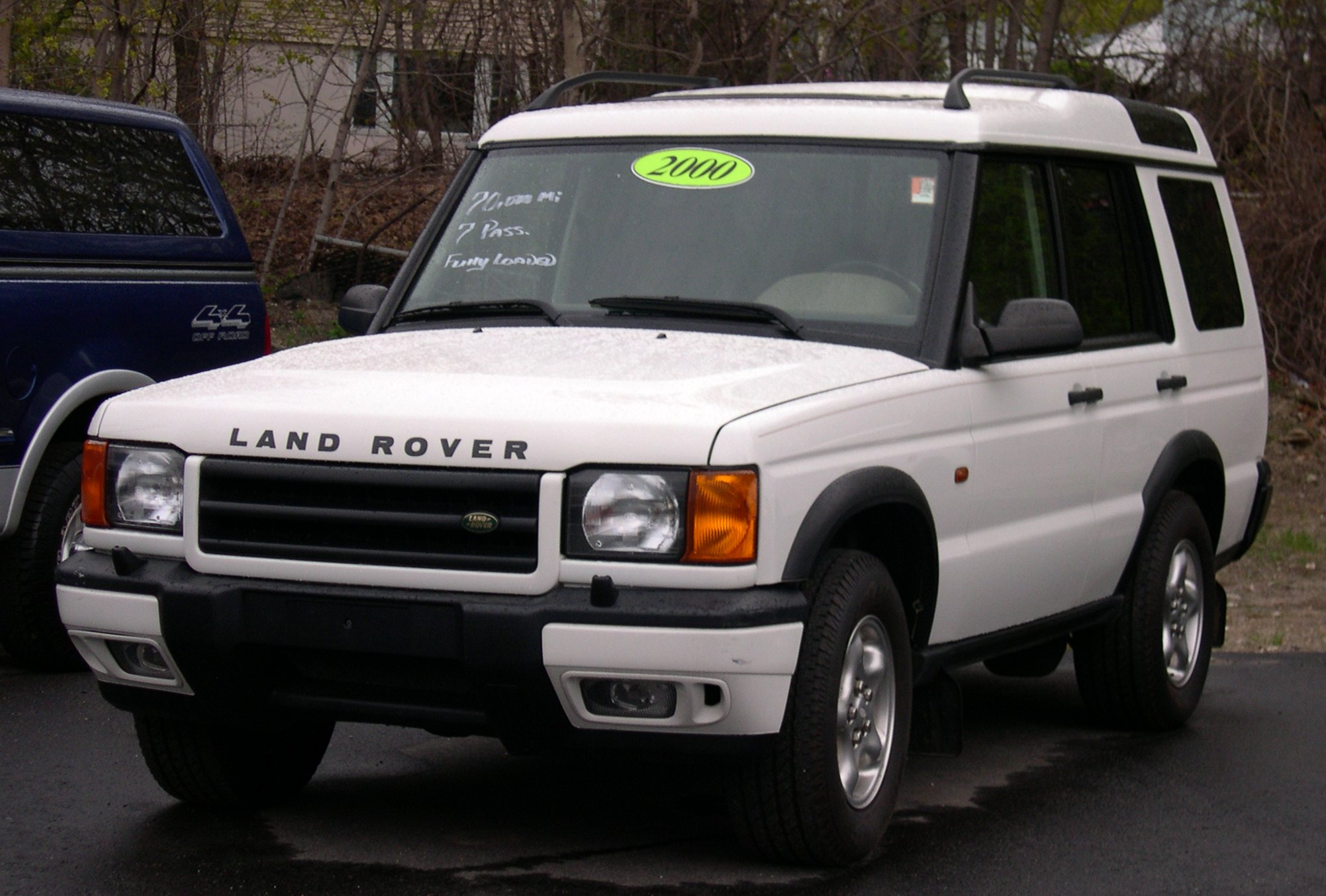 2000 Land Rover Discovery